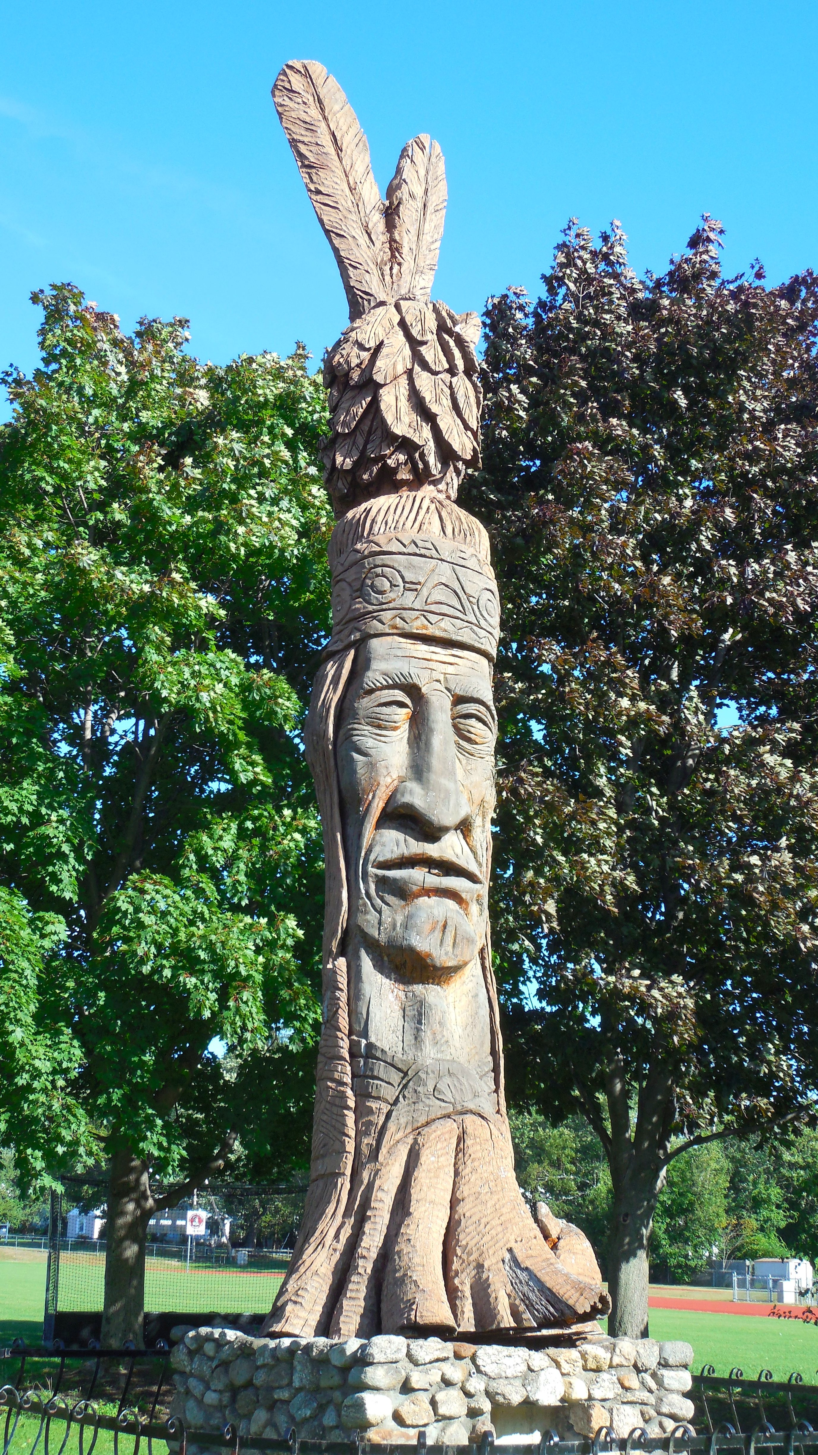 Statue of Keewakwa Abenaki Keenahbeh in Opechee Park in Laconia, New Hampshire, 2016. Sculpted by Peter Wolf Toth (Trail of Whispering Giants). Carved from a red oak tree from Cobble Mountain in Gilford, New Hampshire, this composite memorial of "Keewakwa Abenaki Keenahbeh" is located in Opechee Park, Laconia, New Hampshire, and stands at a height of 36 ft. During the dedication ceremonies in September 1984, more than 3,000 attended, which included an estimated 100 decendants of the Pennacook Suzuki tribe.[1]